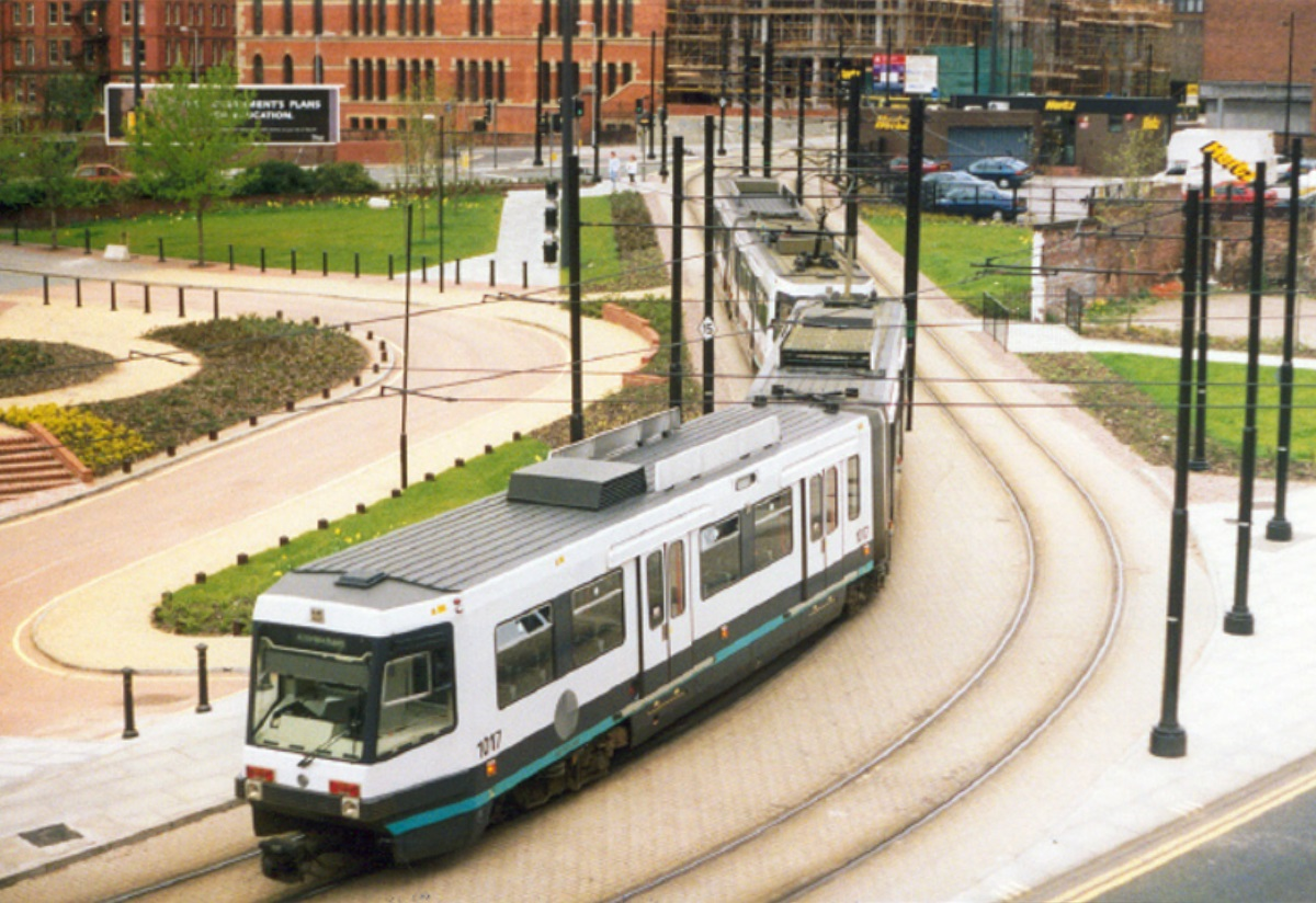 Manchester, facing north-west from Piccadilly station. An almost idyllic setting for a couple of sets of L.R.V.'s. One assumes that this may have been a slum area or the site of some very decrepit buildings of some sort??